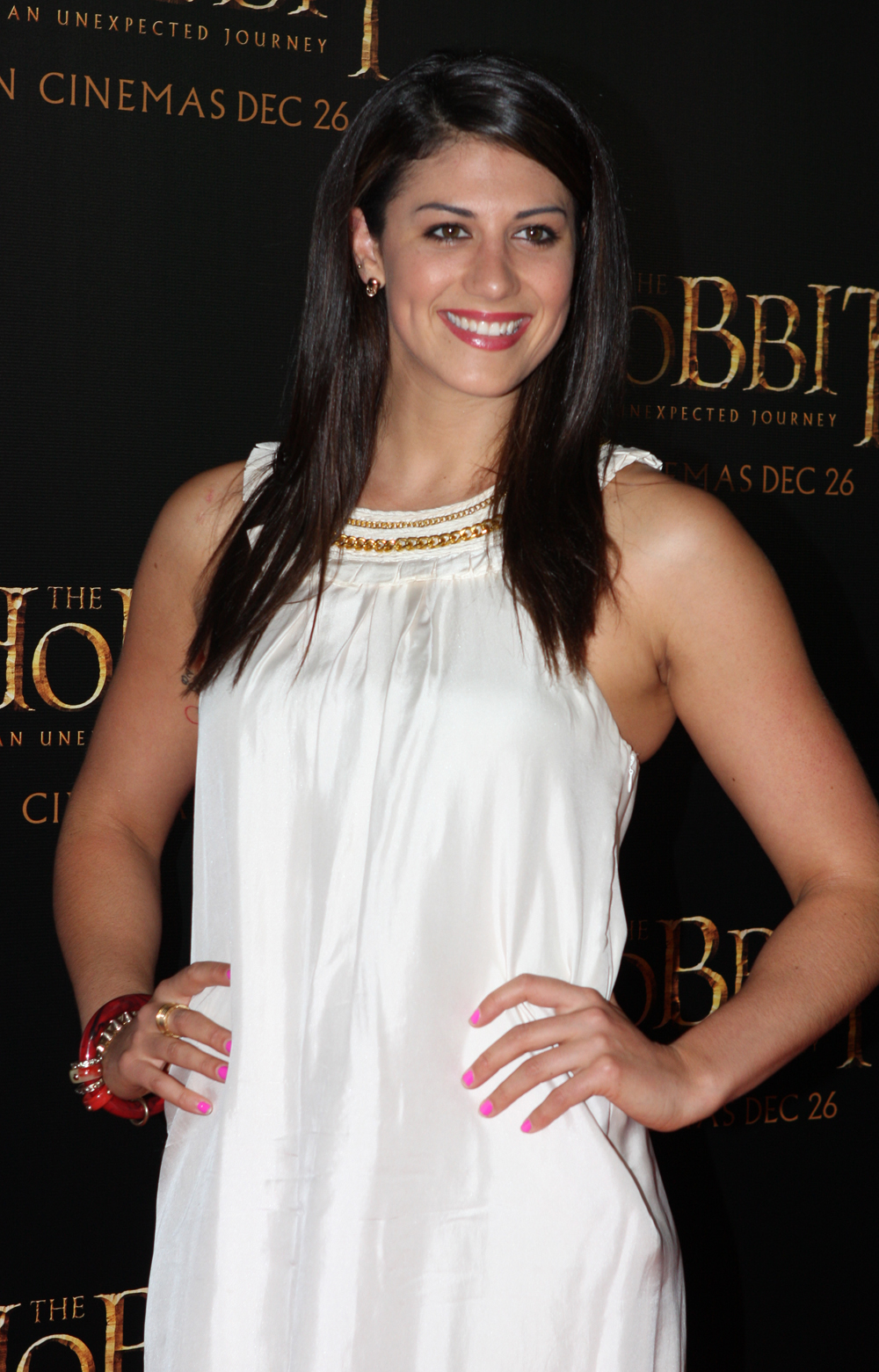 Red carpet movie premiere at George Street Event Cinemas' The Hobbit: An Unexpected Journey'. Sydney, Australia Eva Rinaldi Photography